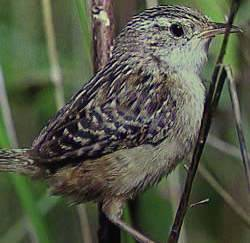 Sedge Wren (Cistothorus stellaris), Isle Royale National Park.